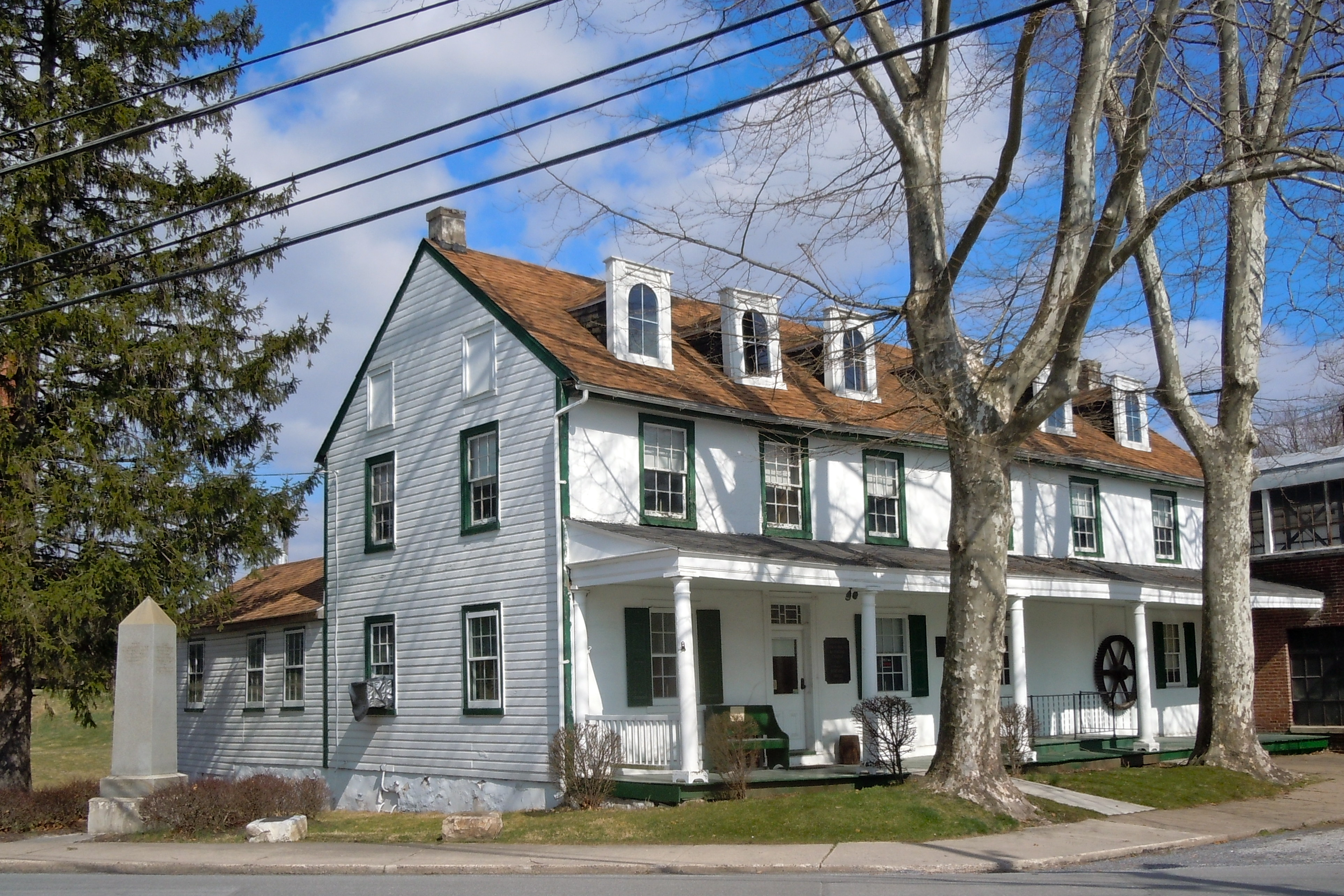 Zercher Hotel, site of some of the events known as the "Christiana Riot" on 09-11-1851, where a free black defended runaway slaves from their putative owner. Well-known event leading up to the Civil War. In Christiana, Lancaster County, Pennsylvania, near the Pennsylvania RR mainline. Obelisque to the left of the hotel commemorates the event, built 1911.